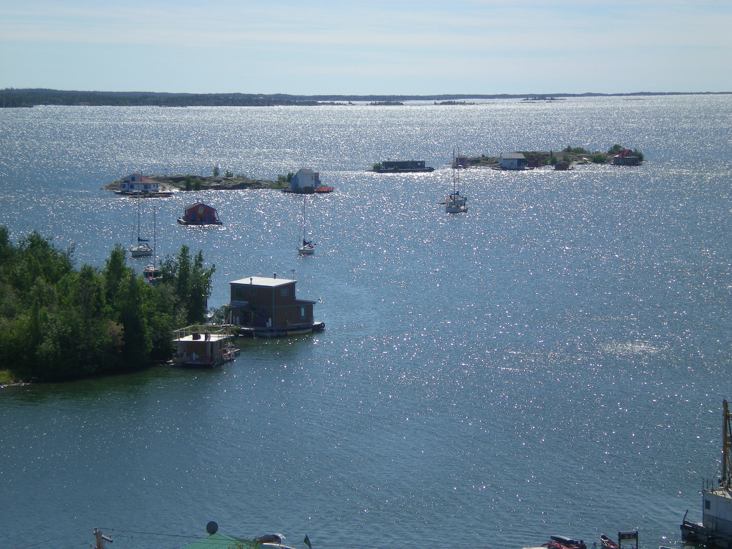 Houseboats on Great Slave Lake